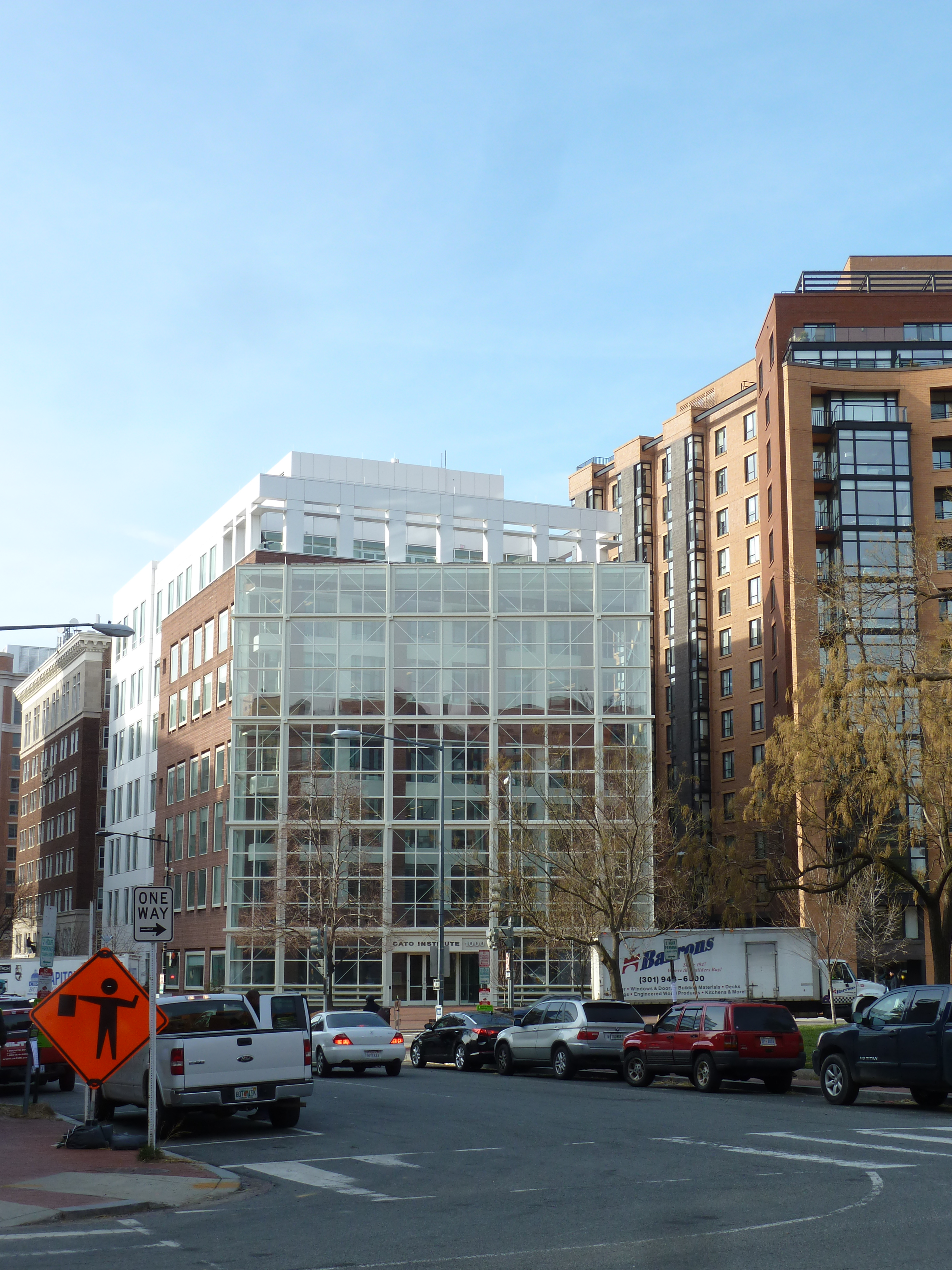 Taken during the March 2013 Wikimedia Cato Meetup/Legislative Data Workshop.